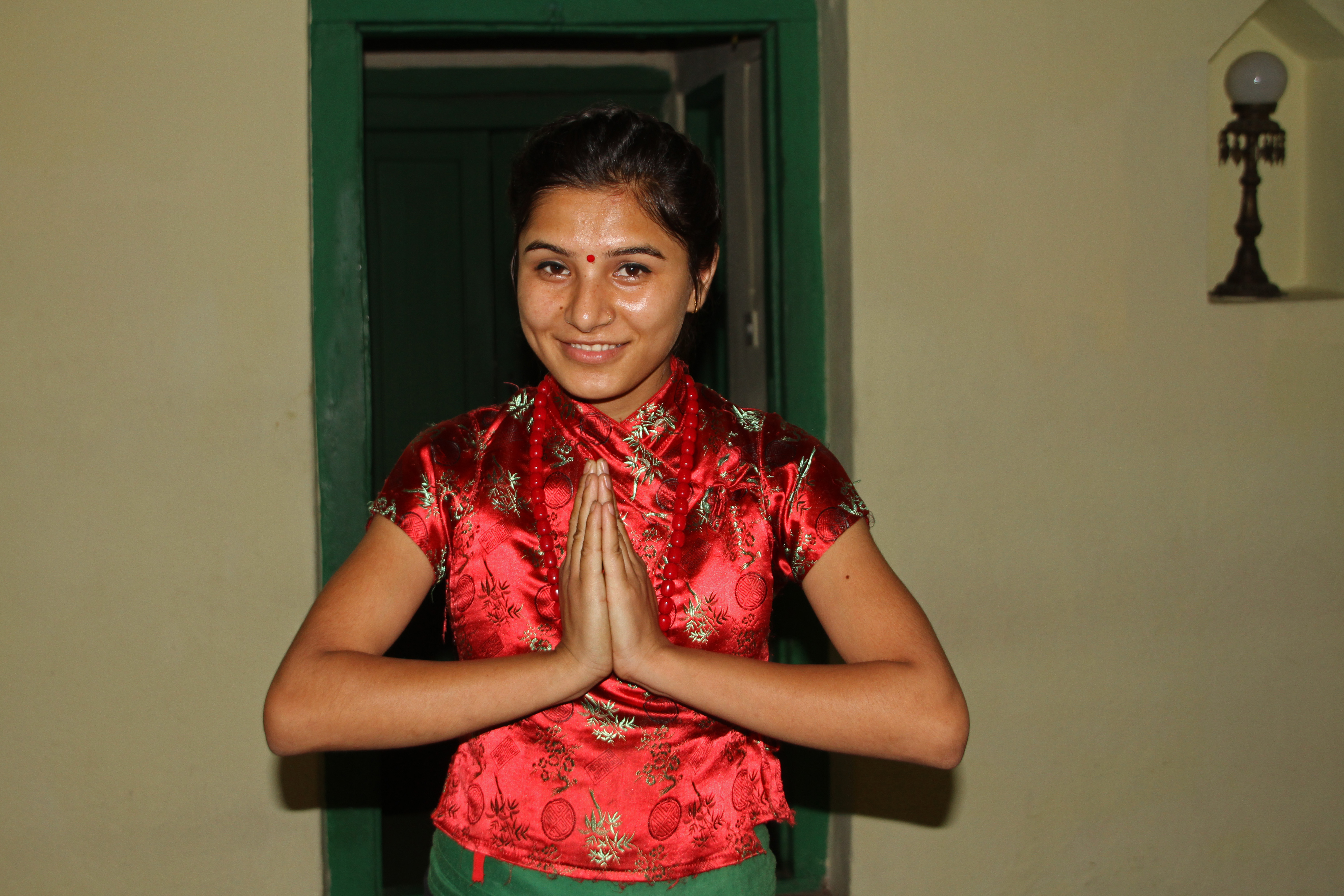 Bhojan Griha Restaurant in Kathmandu in Nepal